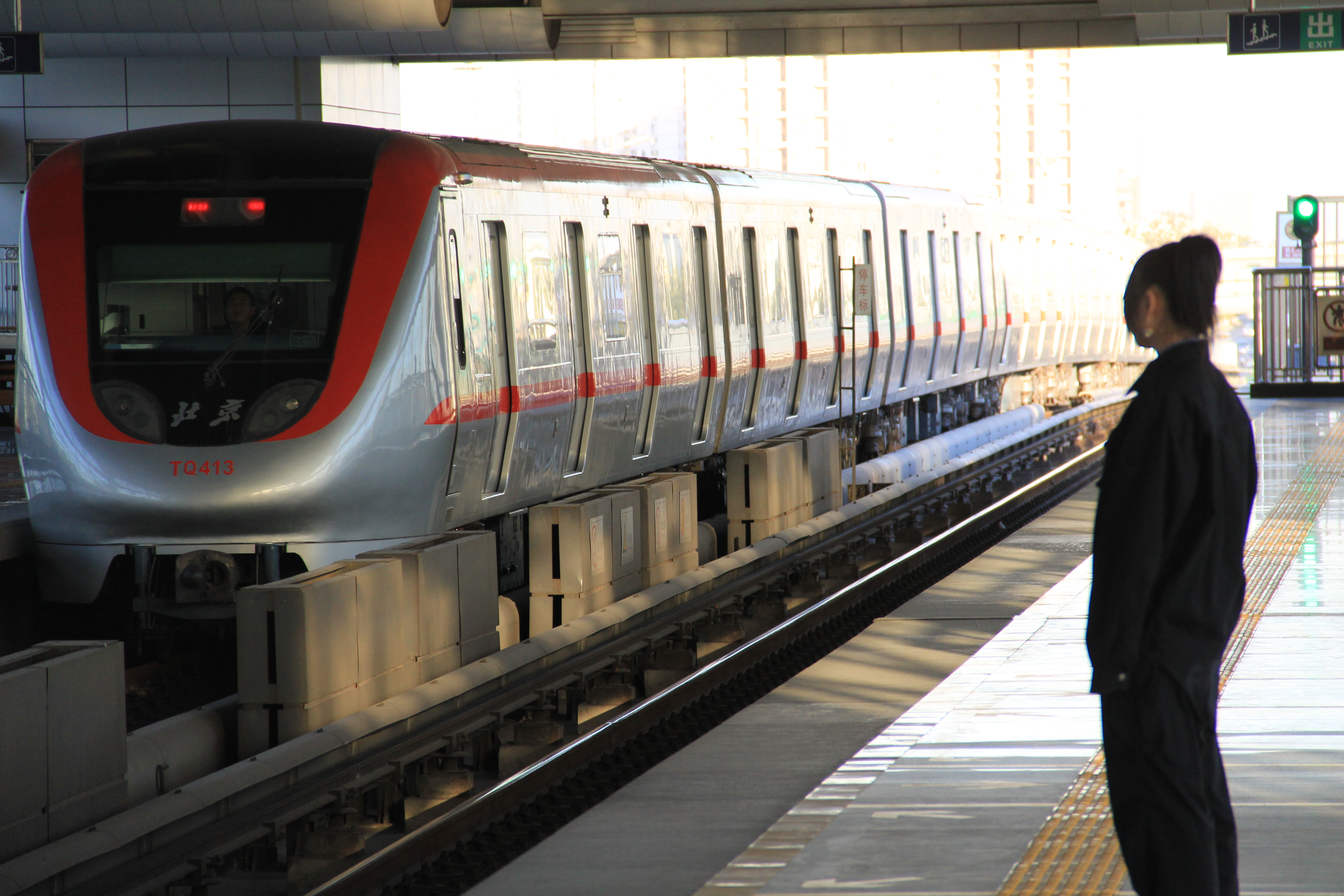 A crew watching the train arrive. At Beijing Subway Gaobeidian Station.